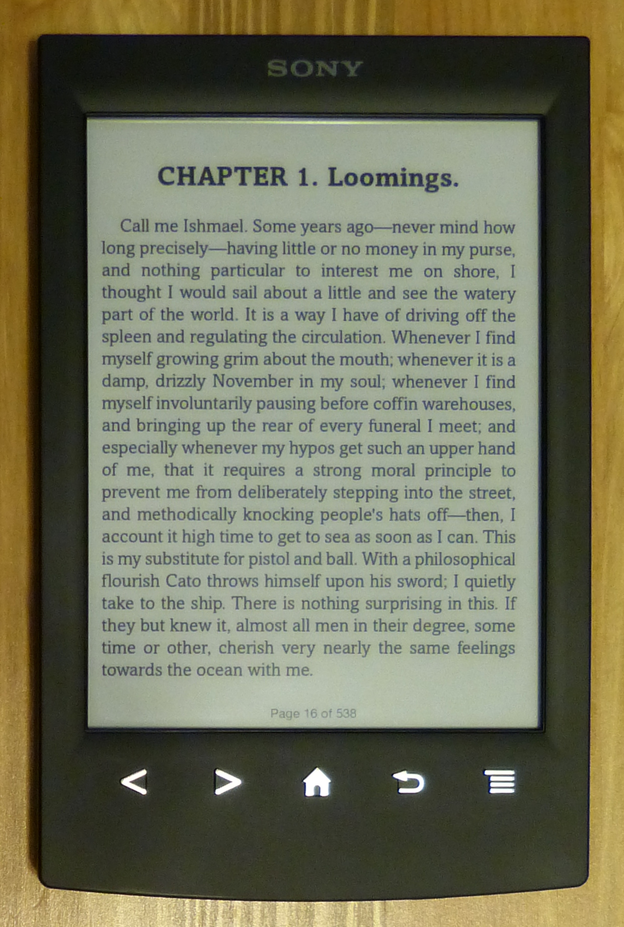 A black Sony Reader PRS-T2 e-book reader; the screen shows the first page of Moby-Dick.